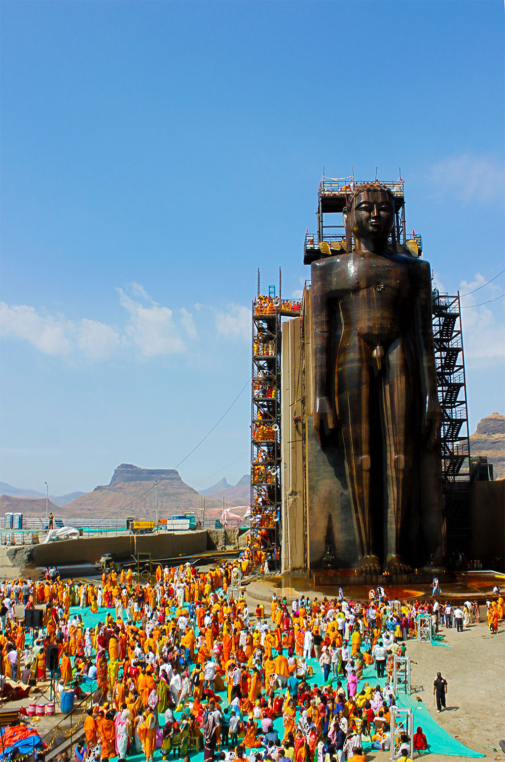 Statue of Ahimsa Front